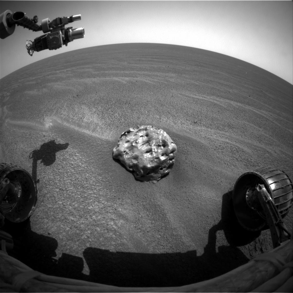 Mars rover Opportunity prepares to examine Heat Shield Rock (Meteorito Meridiani Planum) on Sol 349